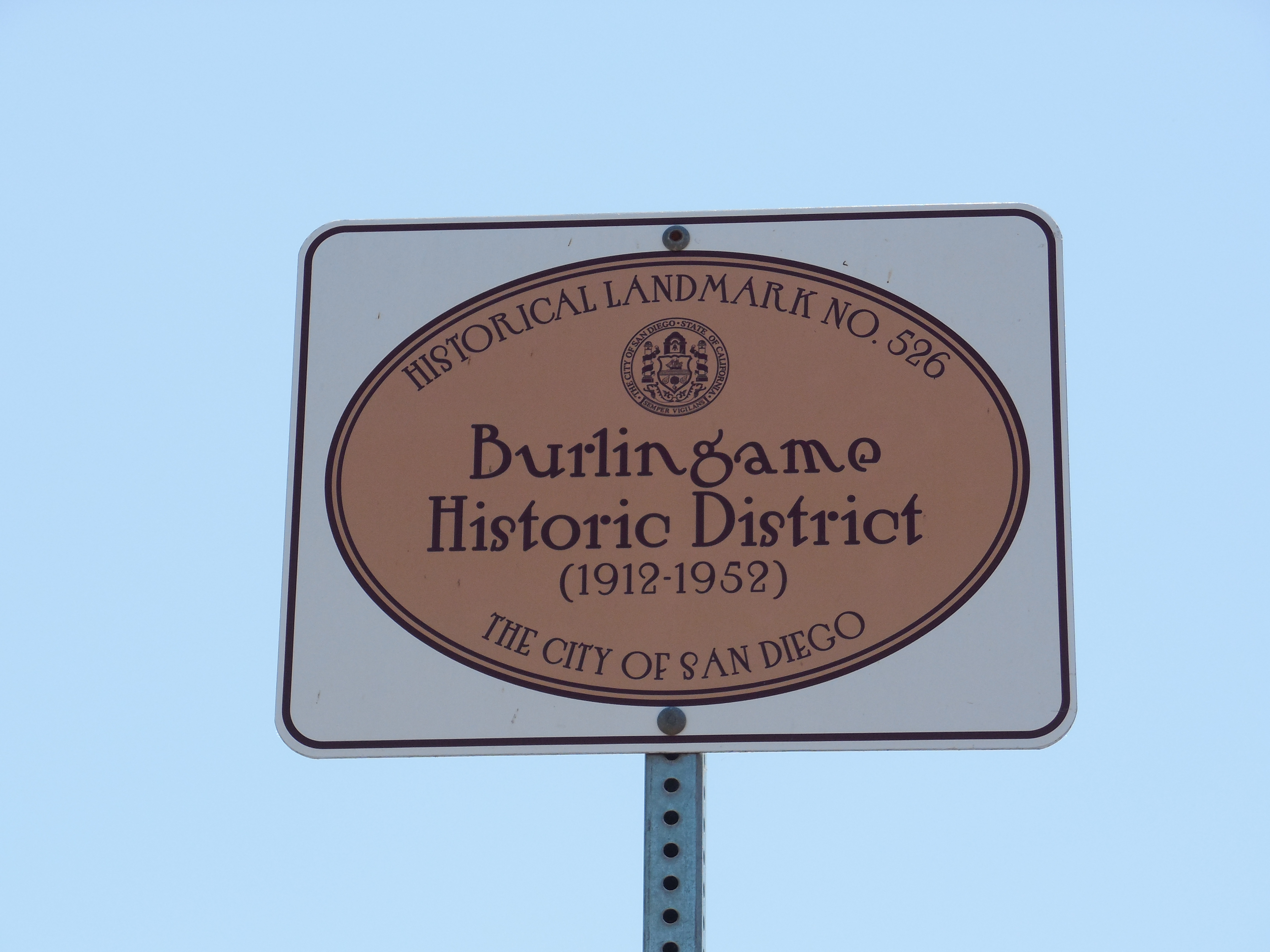 Sign in the Burlingame neighborhood of San Diego, California, at the intersection of 30th St. and Laurel St., marking the neighborhood as City of San Diego historical landmark number 526.